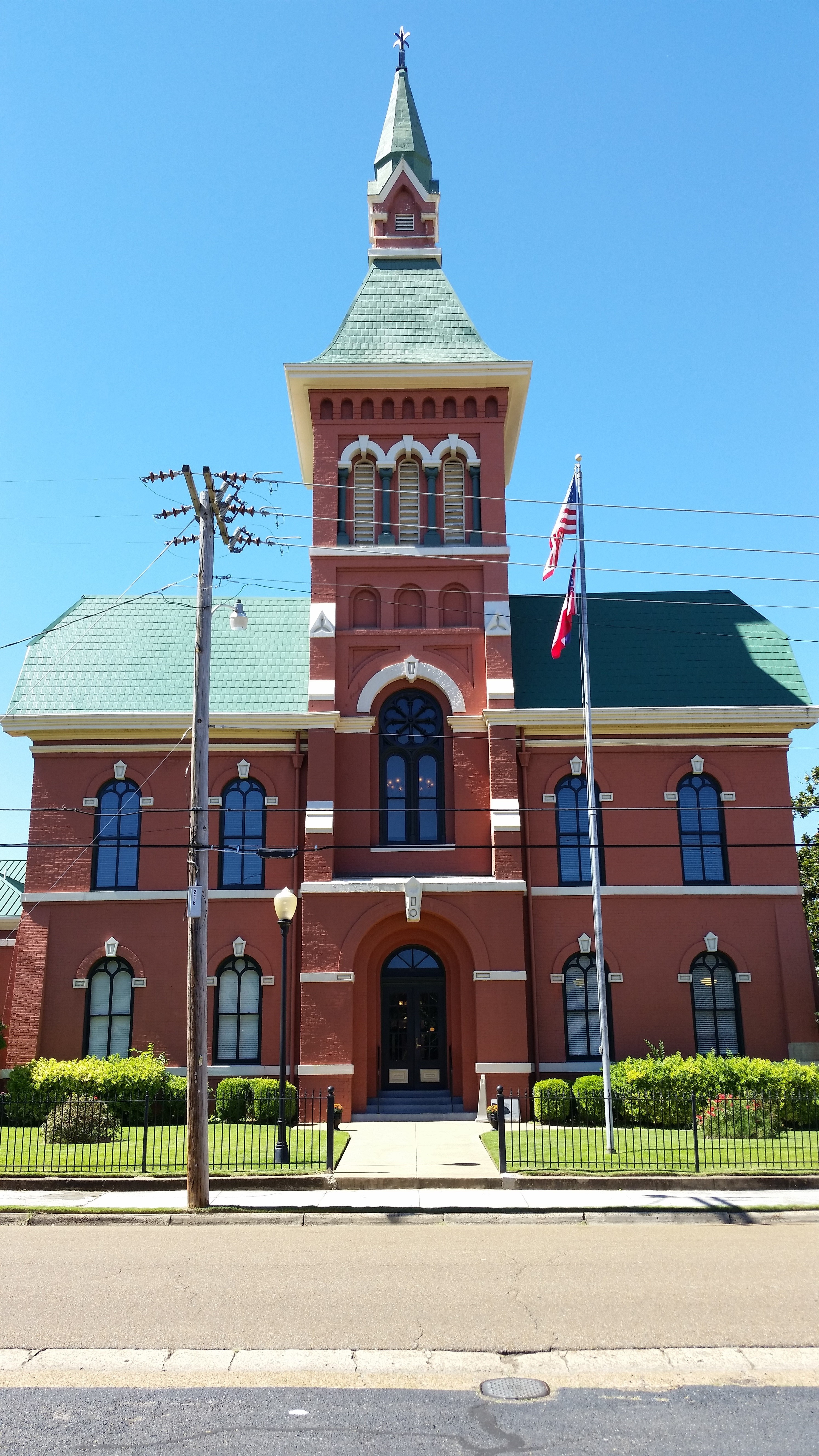 Tate County Courthouse, 201 S. Ward St. Senatobia